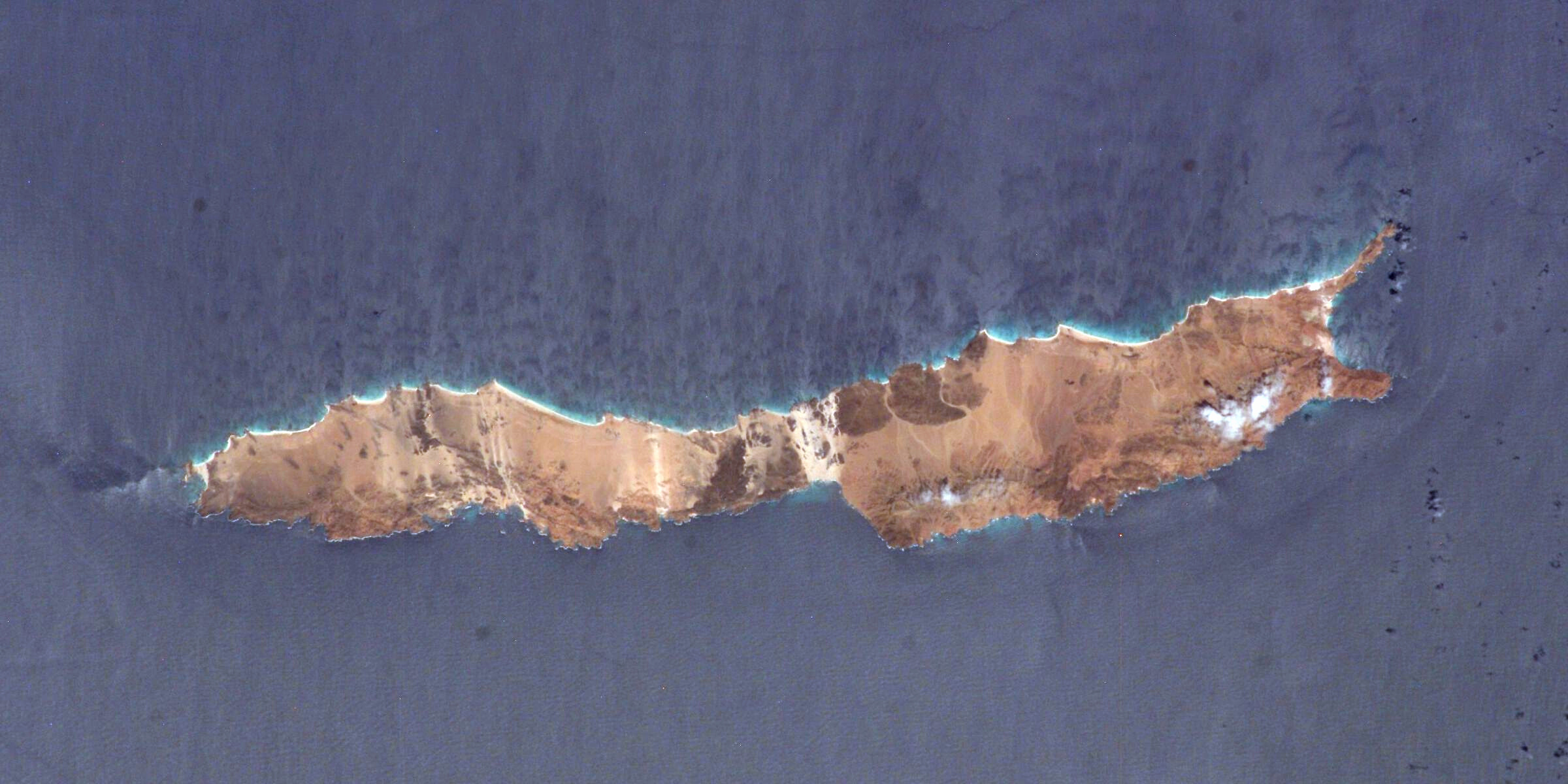 NASA astronaut image of 'Abd al Kūri, Socotra Archipelago, Yemen